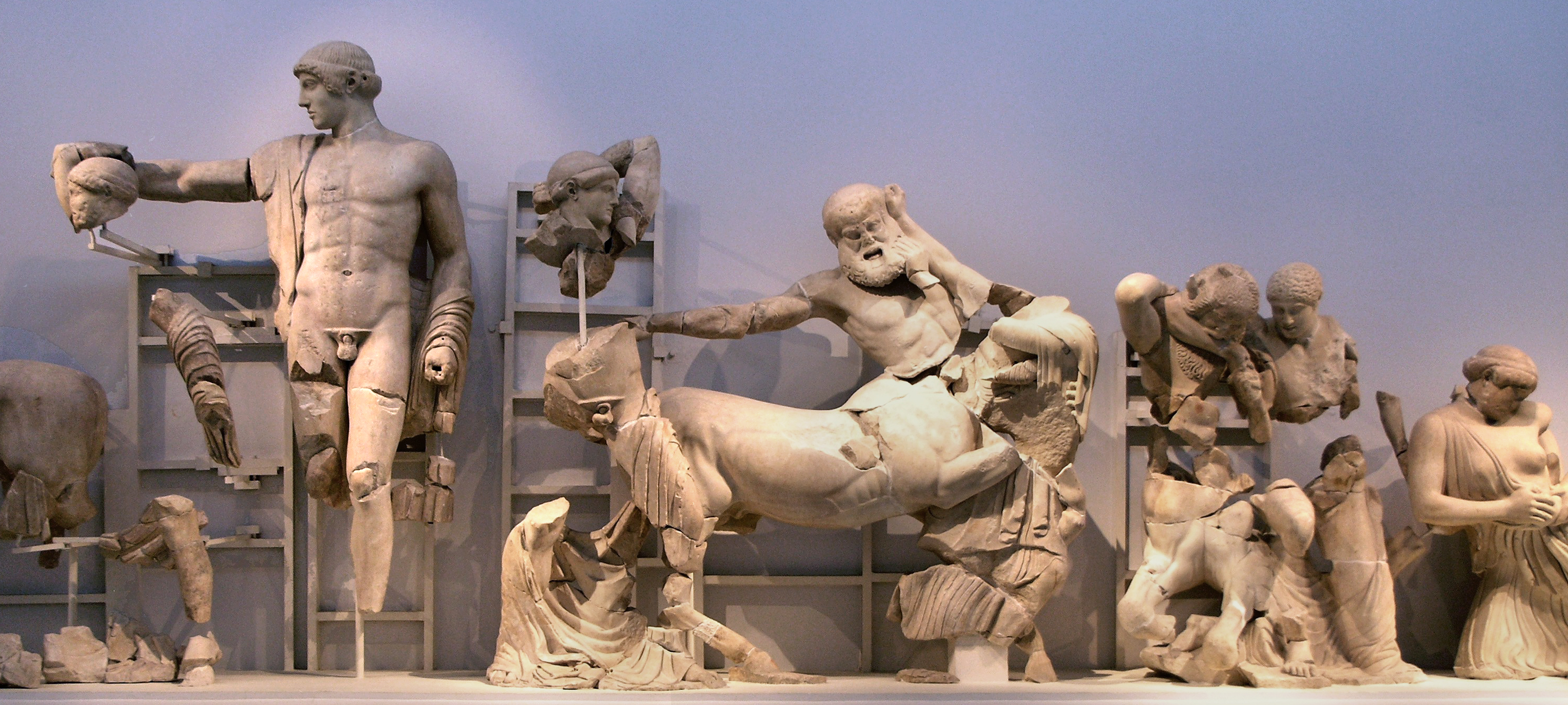 Sculptures of the west pediment of the Temple of Zeus at Olympia. Olympia Archaeological Museum.